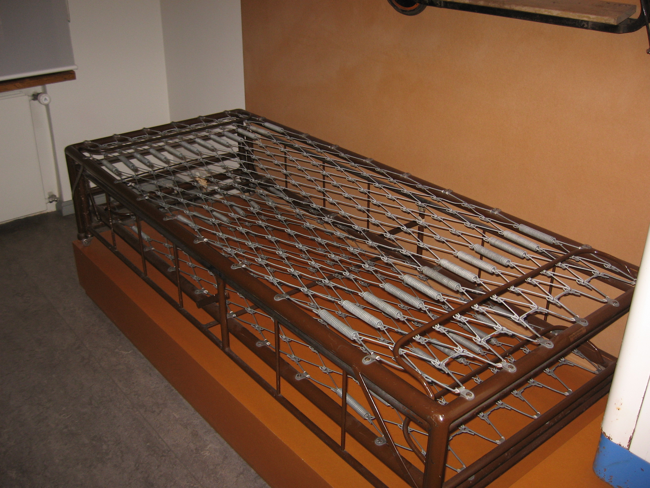 Bed made from steel manufactured in Finland from 1932 to 1964